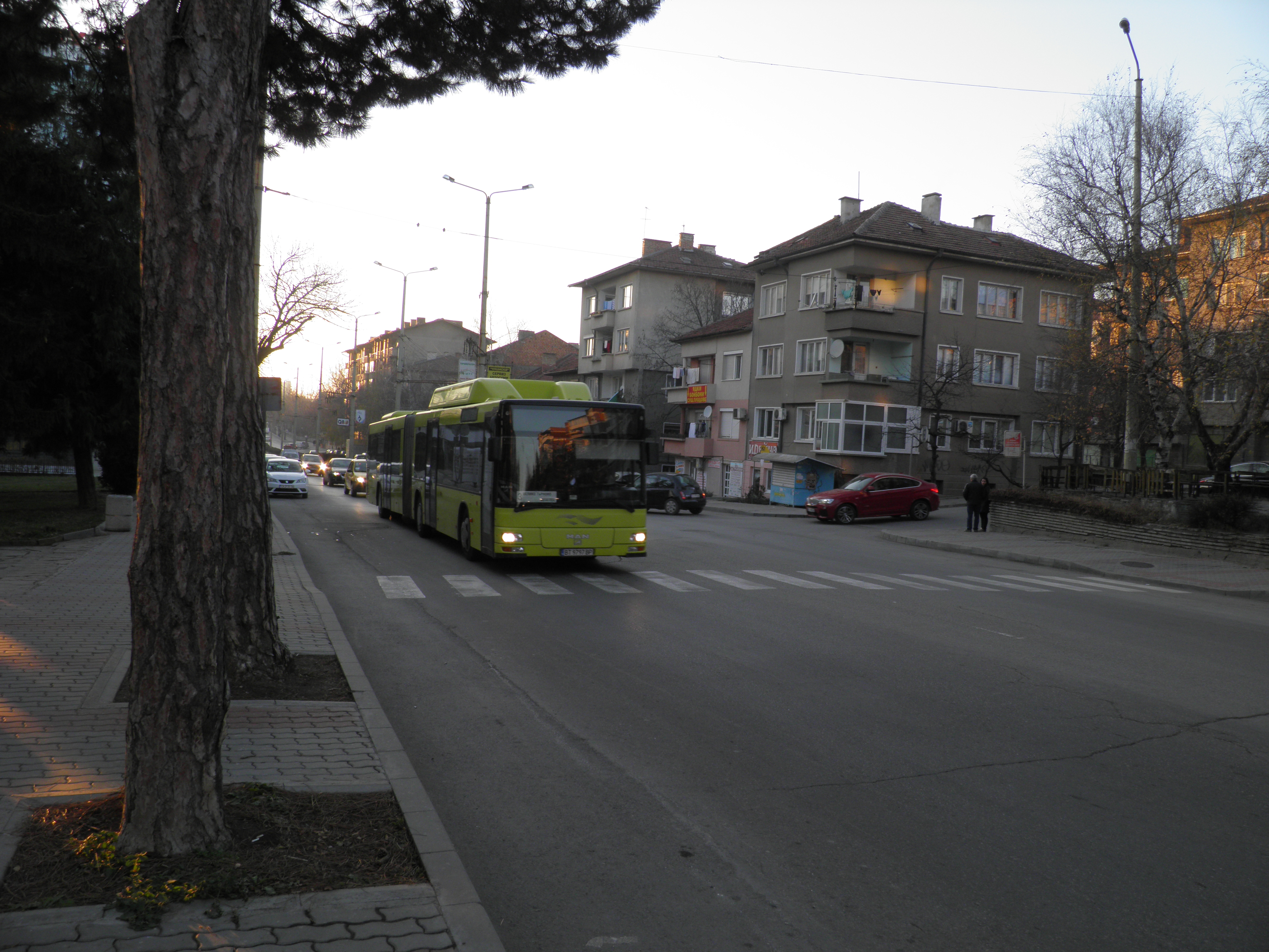 Autobus Man in Veliko Tarnovo on bus line №3